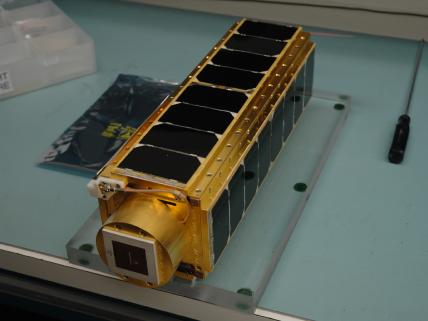 PharmaSat spacecraft during preflight checkouts